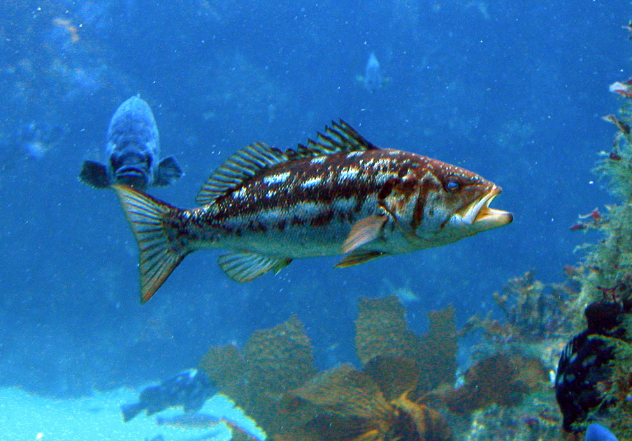 The kelp bass (Paralabrax clathratus) is a popular sport fishing species. This photo was taken in the Monterey Bay Aquarium.